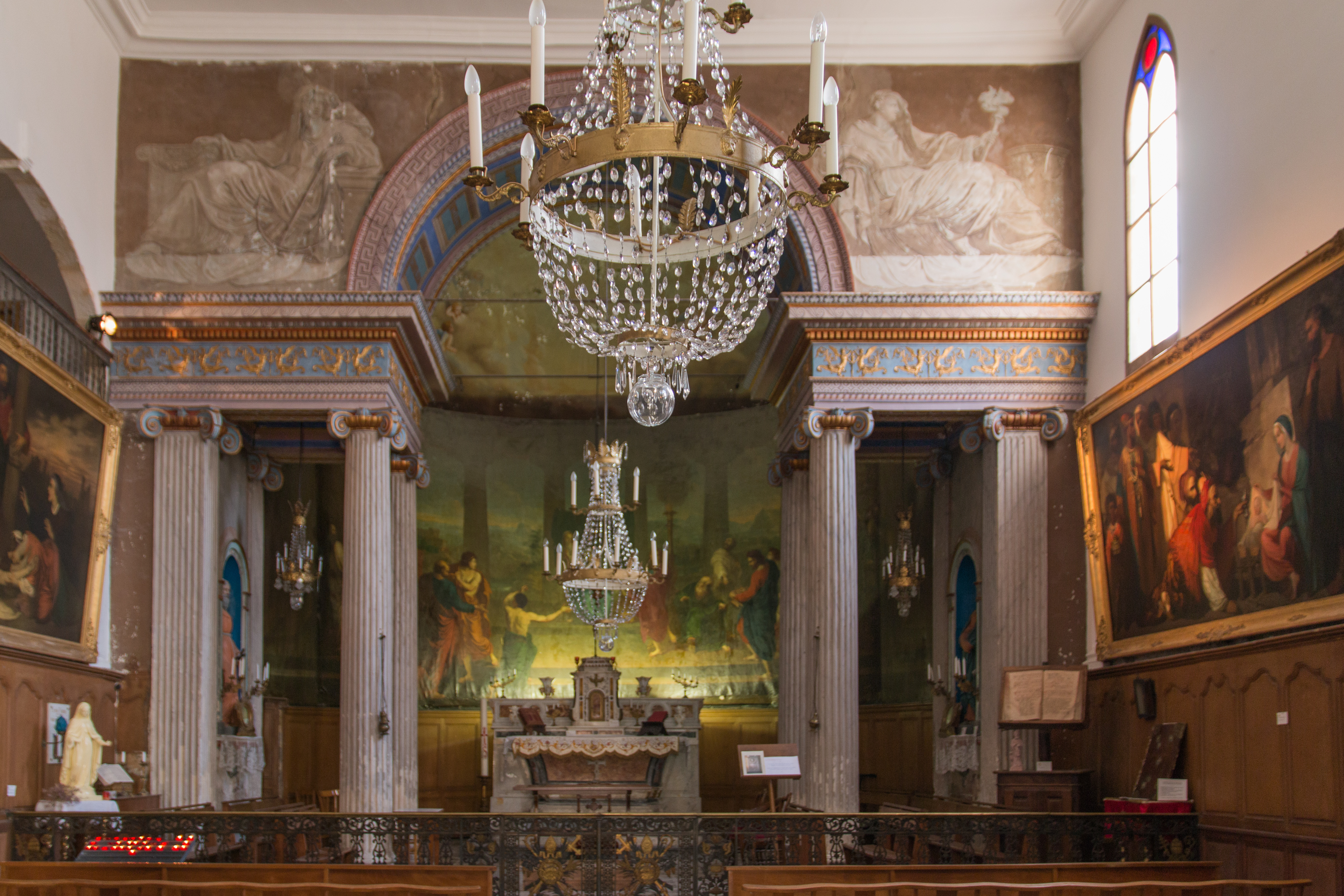 Apse of the Chapel of the White Penitents.